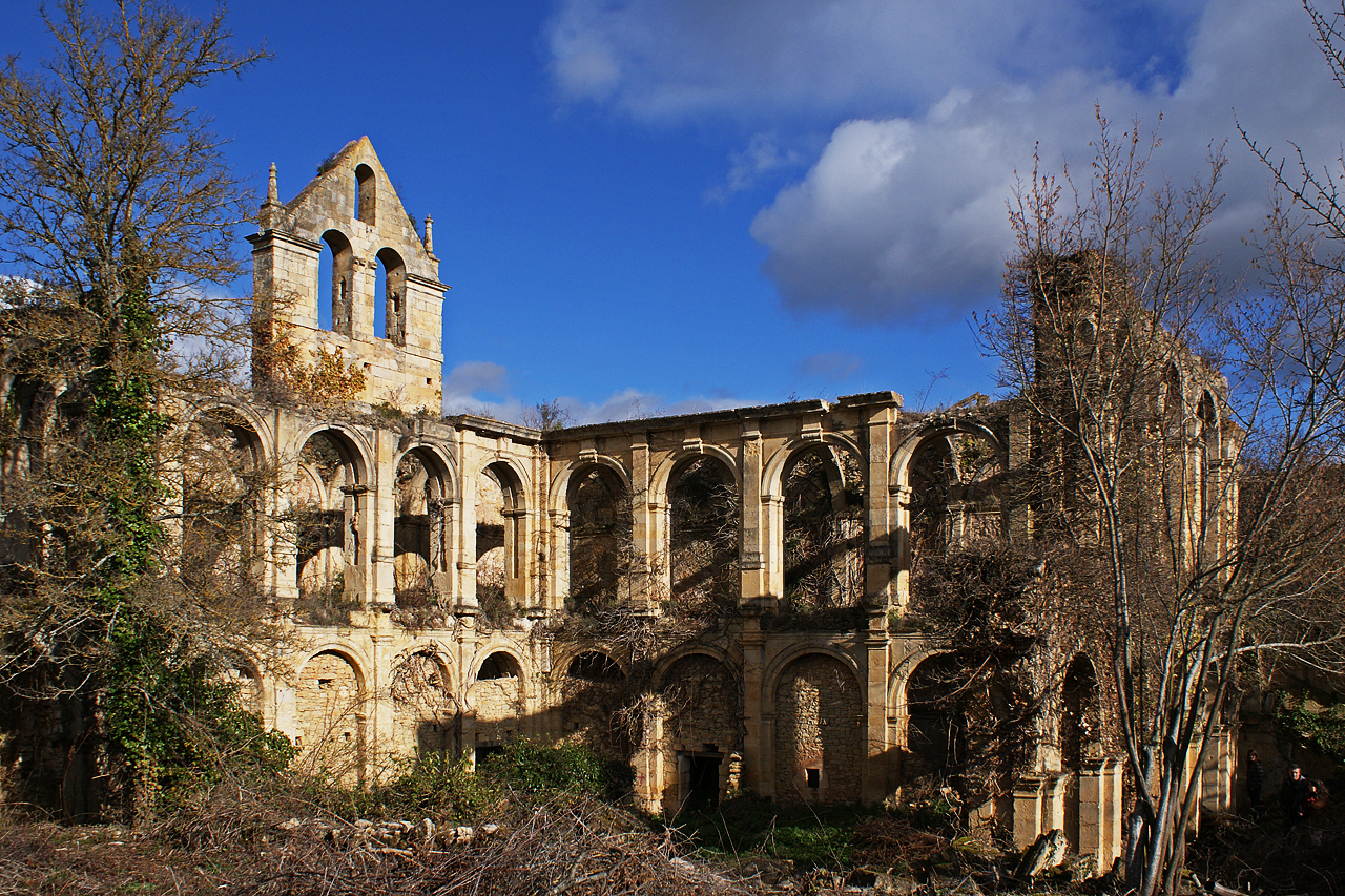 Monastery of Santa María de Rioseco, in Manzanedo Valley. In Burgos (Spain)